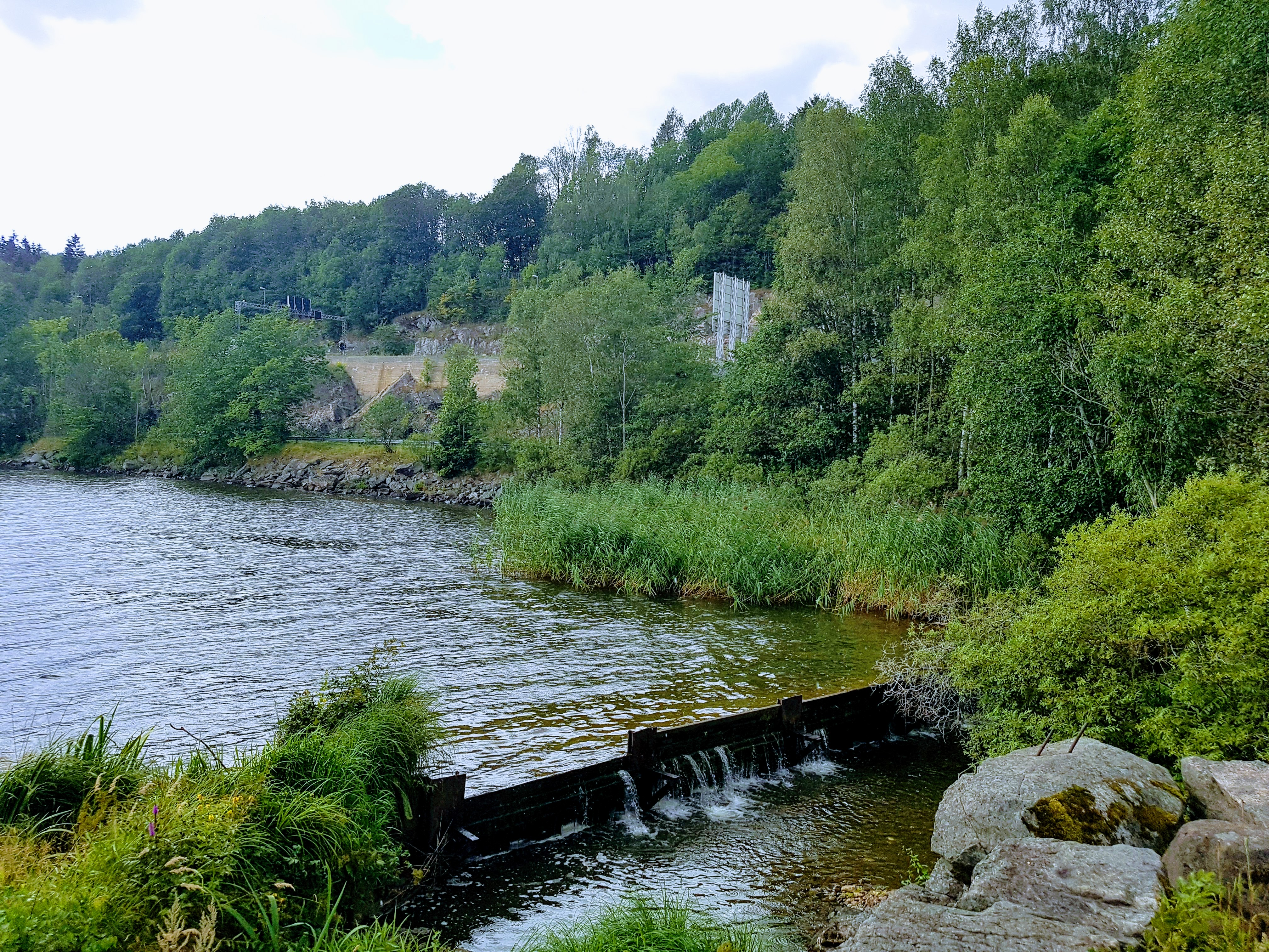 Ärungen lake from north-west